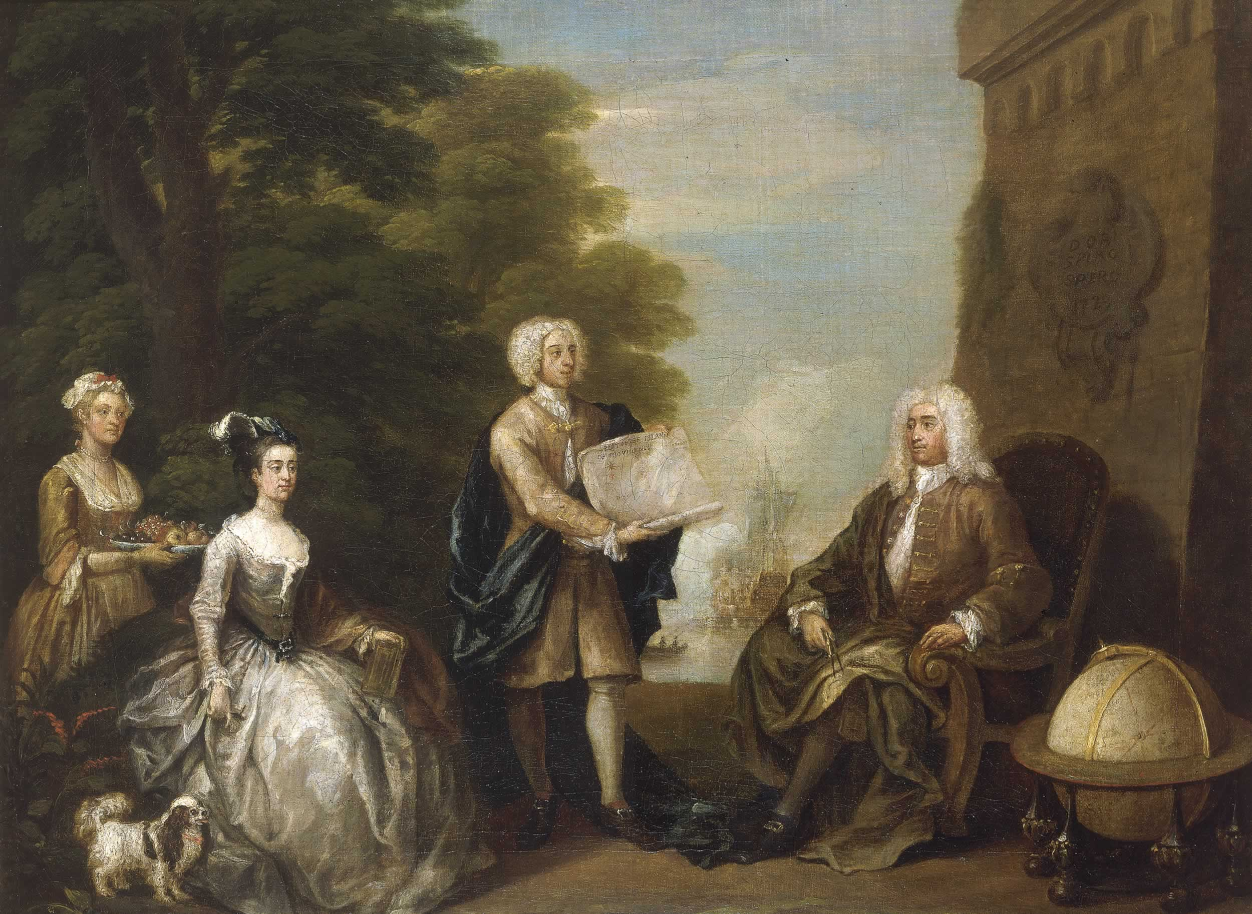 Woodes Rogers, former Pirate, Governor of the Bahamas. The son of the Governor presents his father to the right with plans for the port of Nassau.